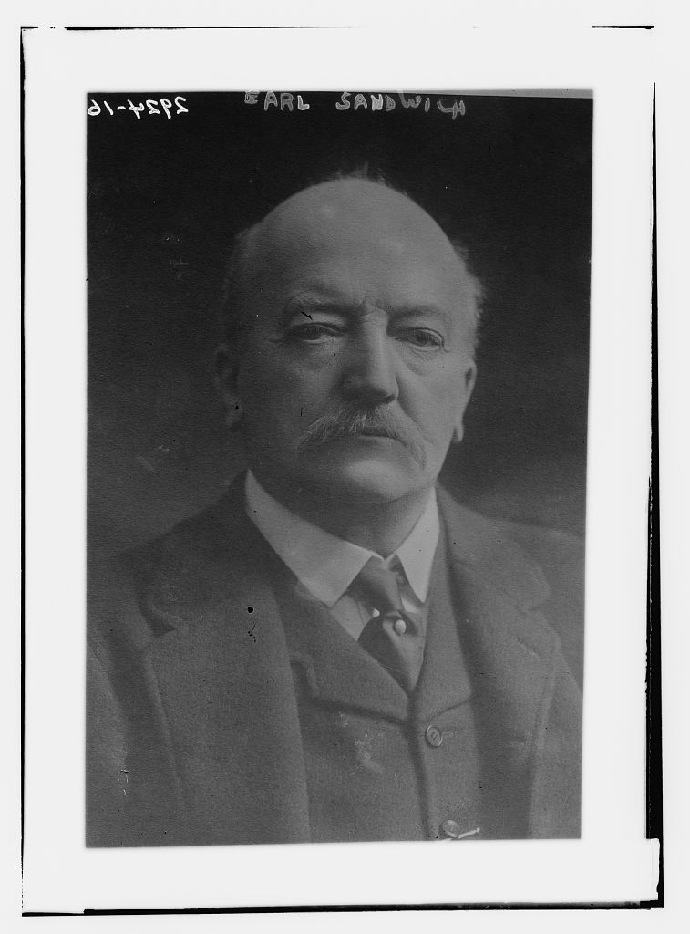 Bain News Service,, publisher. Edward Montagu [between ca. 1910 and ca. 1915] 1 negative : glass ; 5 x 7 in. or smaller. Notes: Title from unverified data provided by the Bain News Service on the negatives or caption cards. Forms part of: George Grantham Bain Collection (Library of Congress). Format: Glass negatives. Repository: Library of Congress, Prints and Photographs Division, Washington, D.C. 20540 USA, General information about the Bain Collection is available at Persistent URL: Call Number: LC-B2- 2924-16